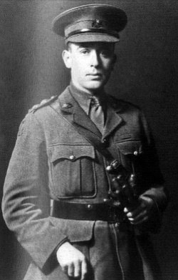 Rupert Vance "Mick" Moon (1892–1986) was an Australian recipient of the Victoria Cross during the First World War.